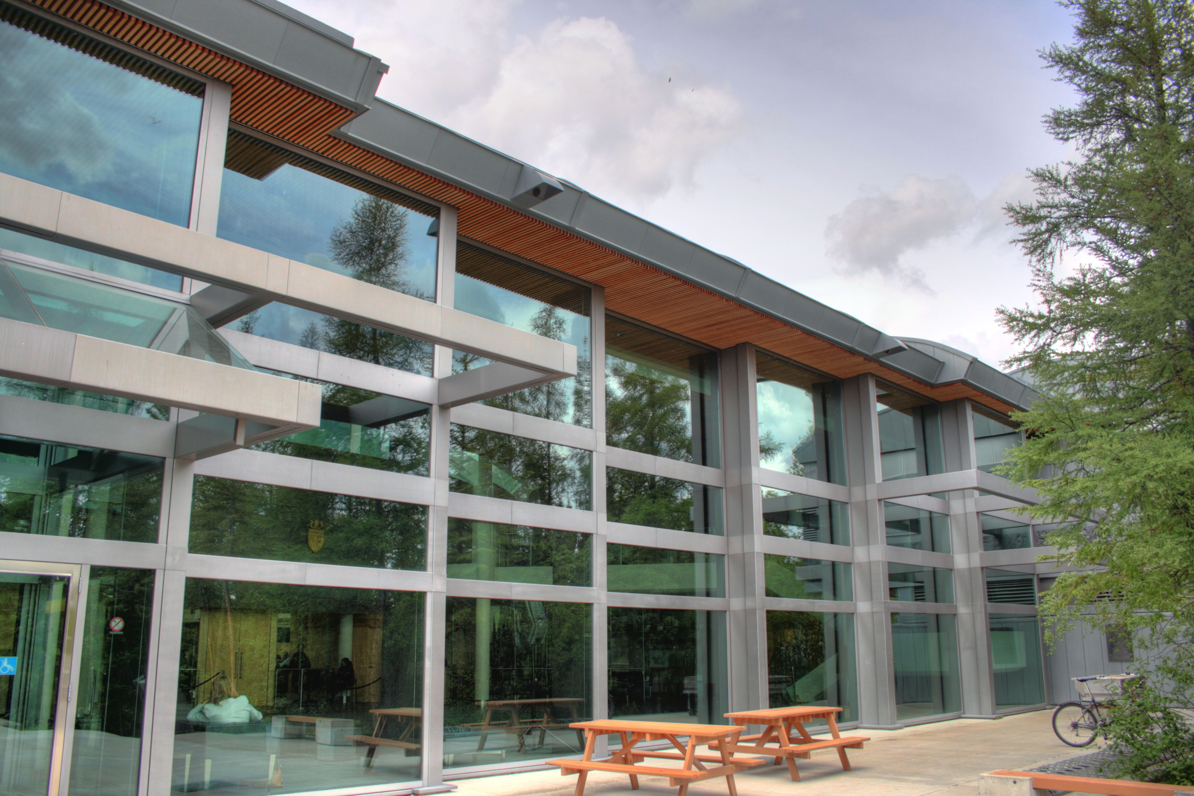 South face of the Northwest Territories Legislative Building, in Yellowknife, Northwest Territories, Canada.